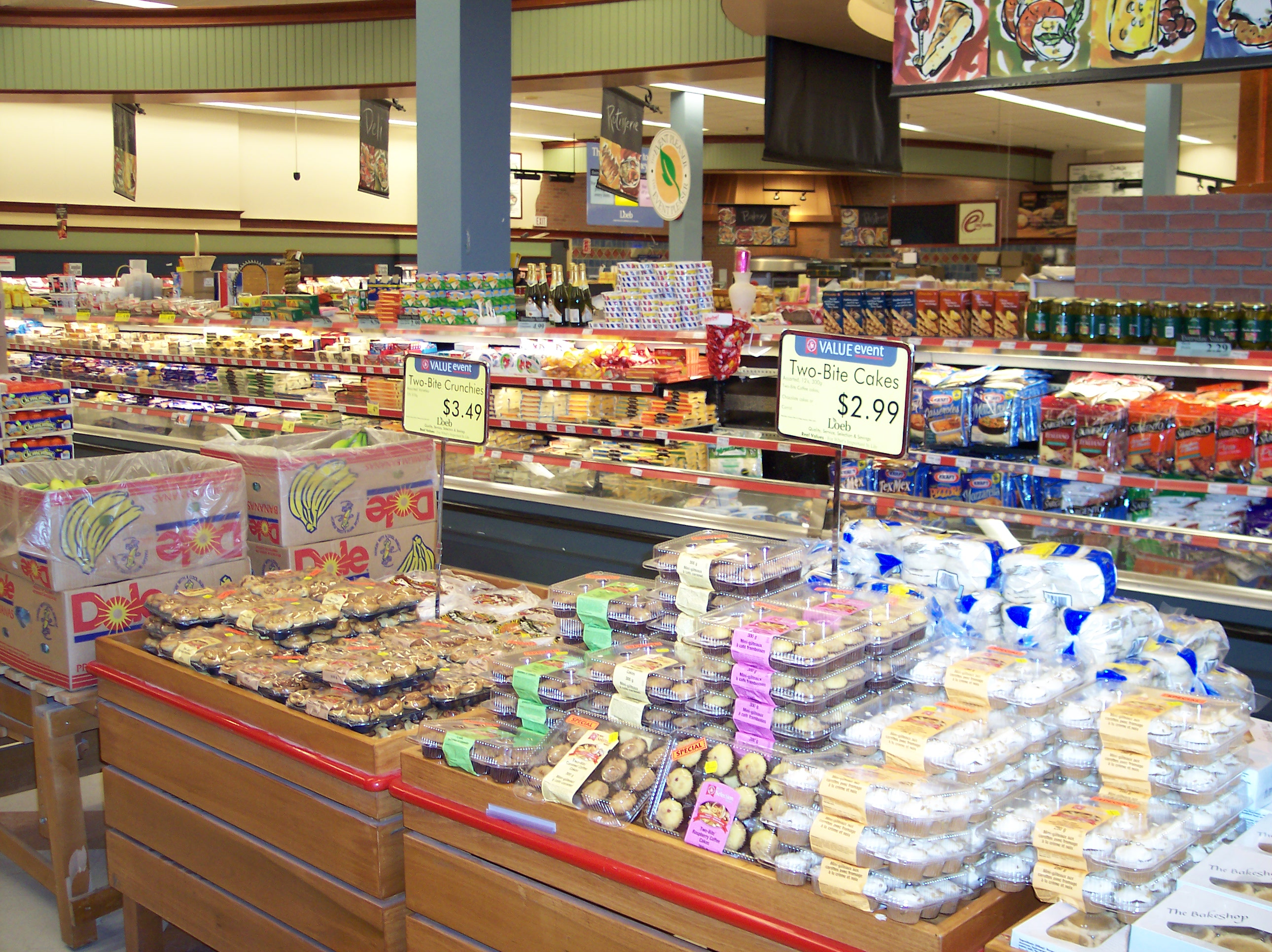 Picture of the interior of a typical Loeb Supermarket. The store Location is Loeb Southgate, Ottawa Ontario Canada. Photo by Sean Lavallée